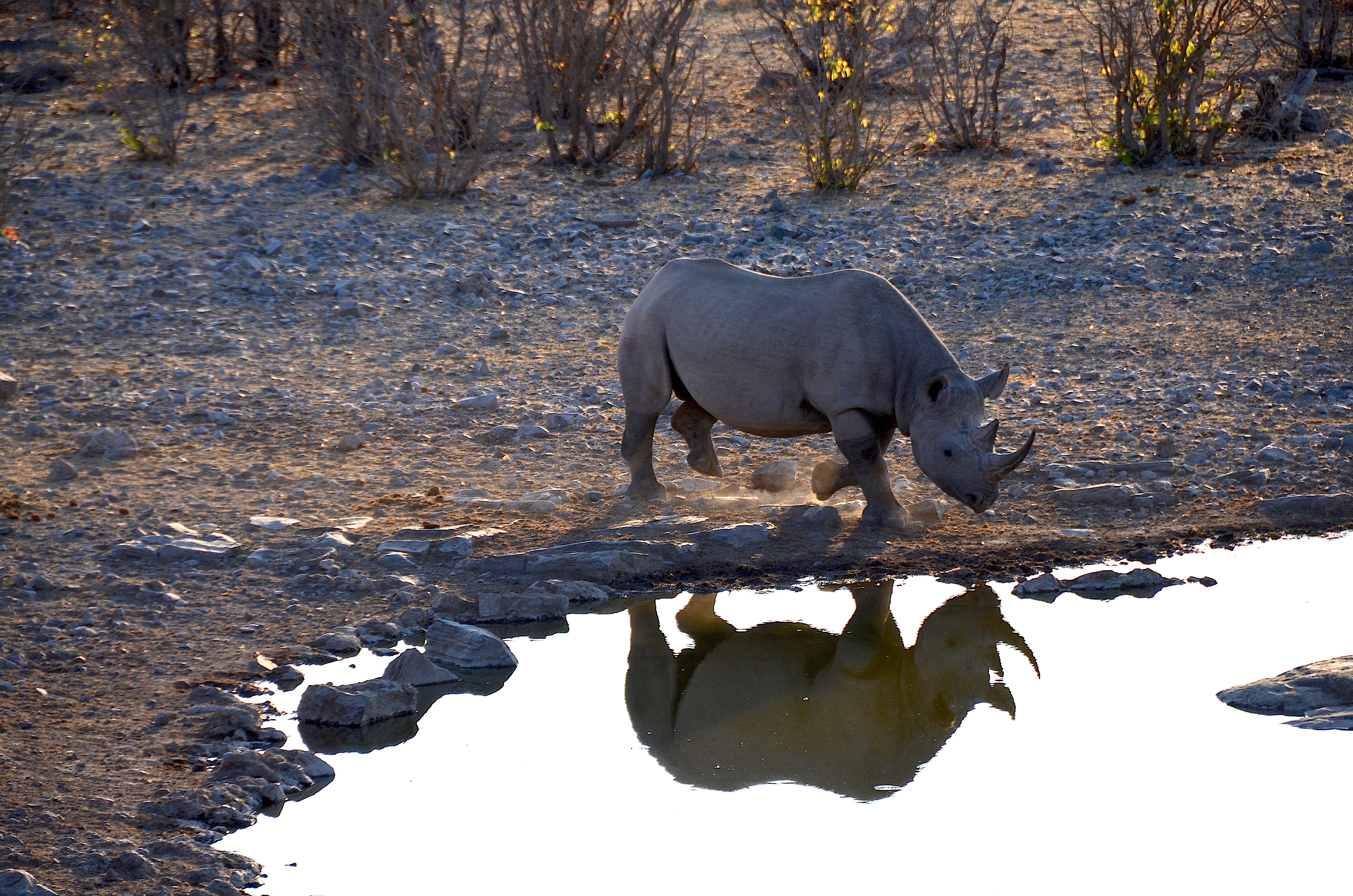 Black rhinoceros at Halali waterhole